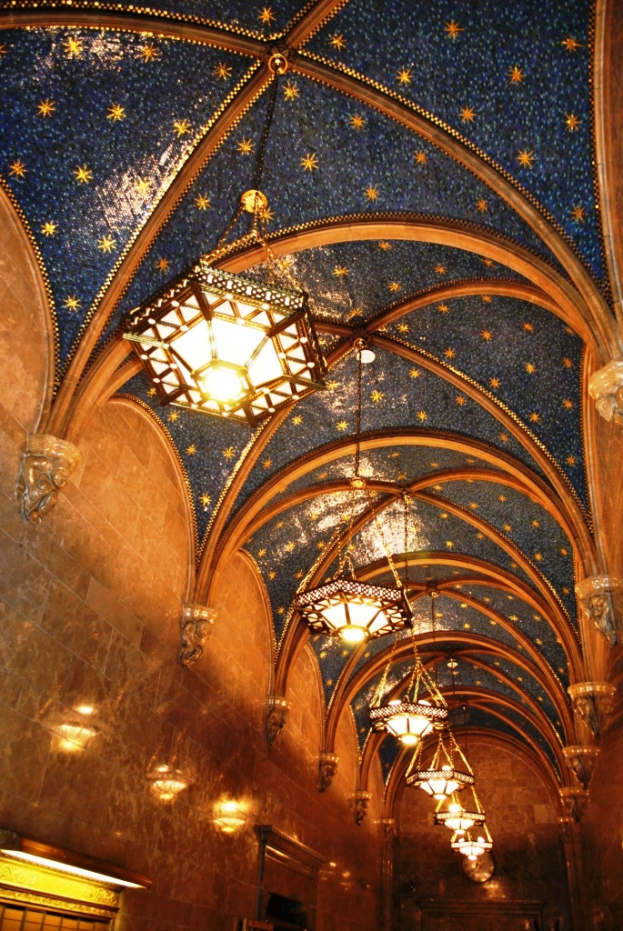 Bowery Savings Bank Building